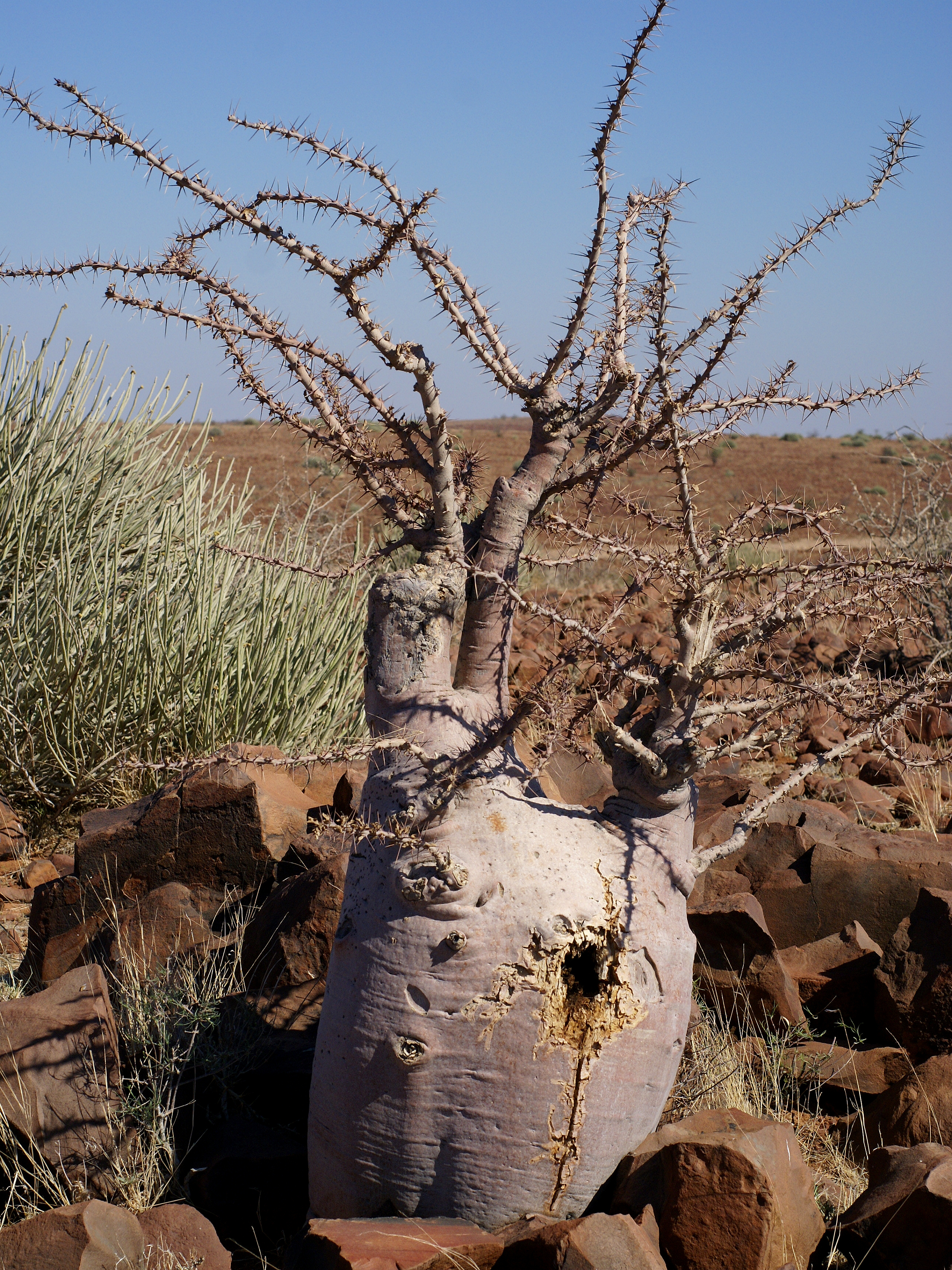 A Bottle tree close to Palmwag, Namibia